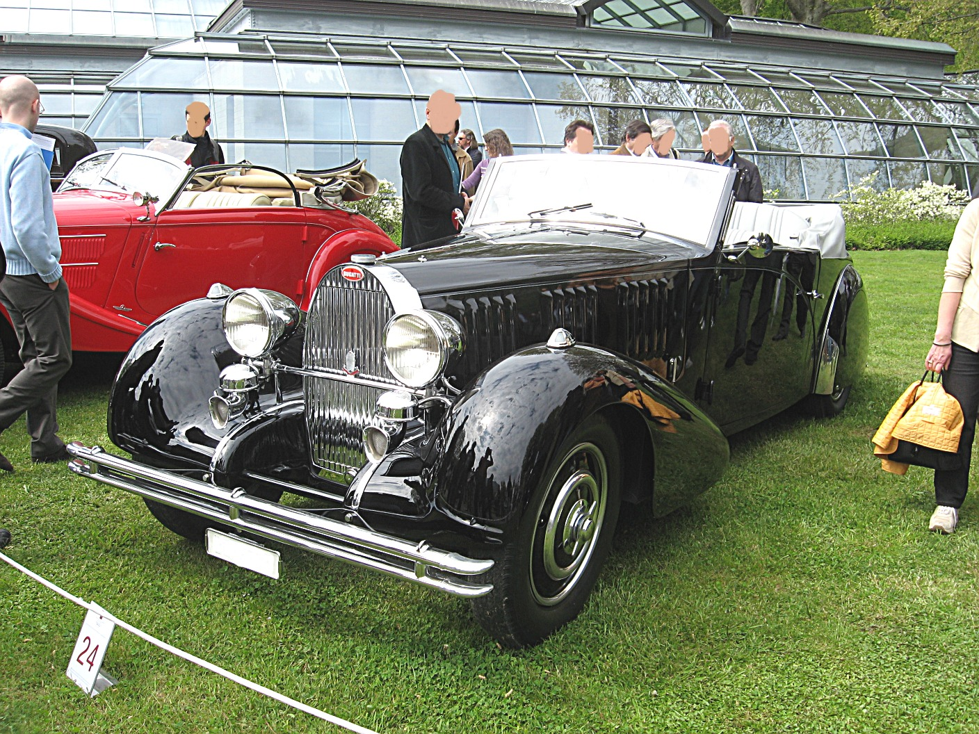 Subject:Bugatti Type 57 Cabriolet Graber (1936) Date:April 27th, 2008 Event:Concorso d’Eleganza”Villa d’Este” 2008 Place/Country: Cernobbio (CO), Italy